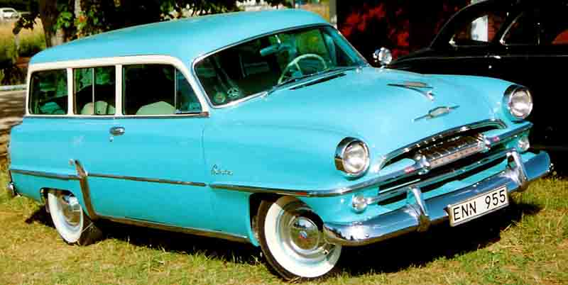 1954 Plymouth Belevedere Suburban. 1954 Belevederes featured full-length rocker sill moldings.